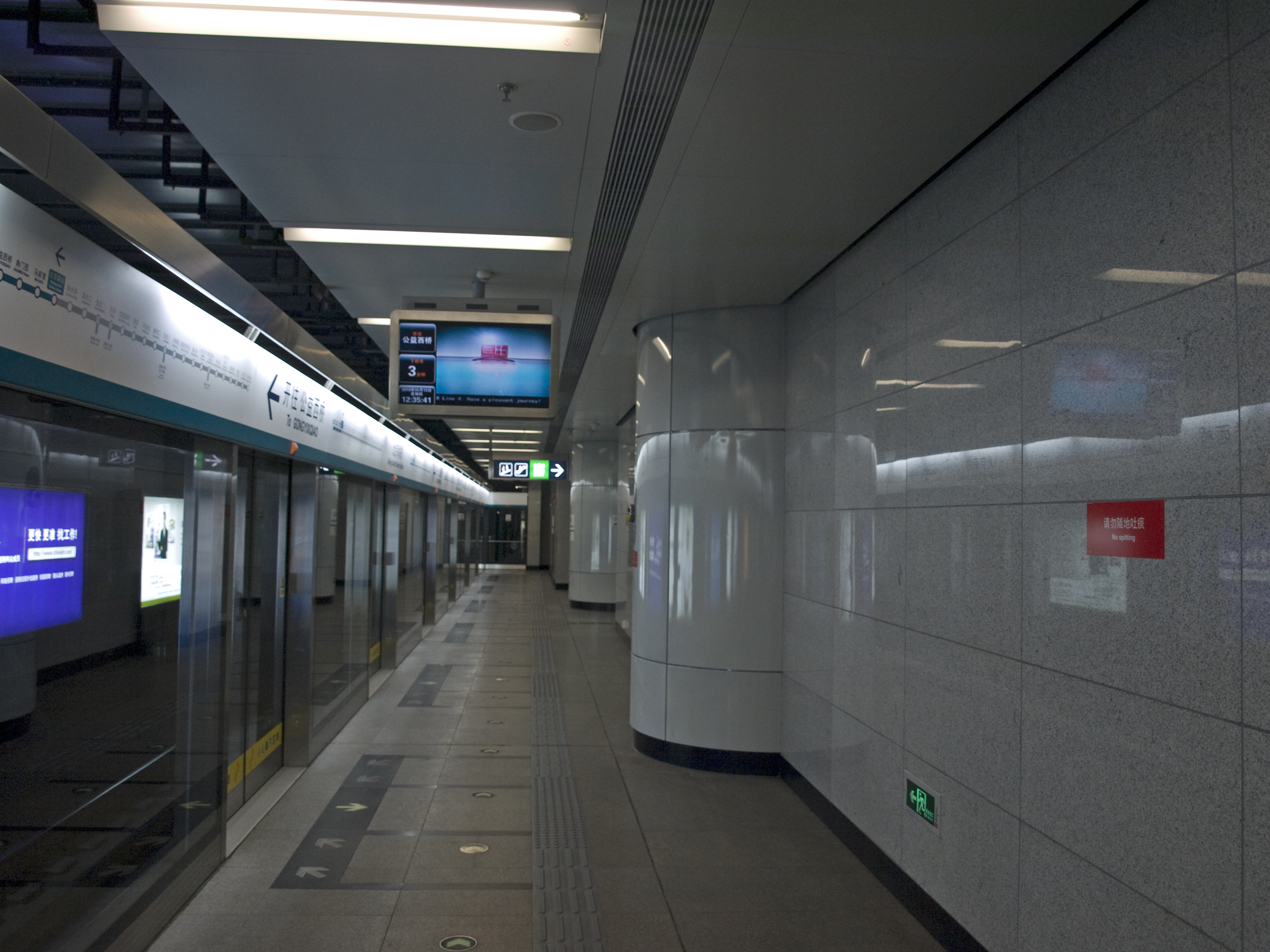 Beijing South Railway Station station, Beijing Subway